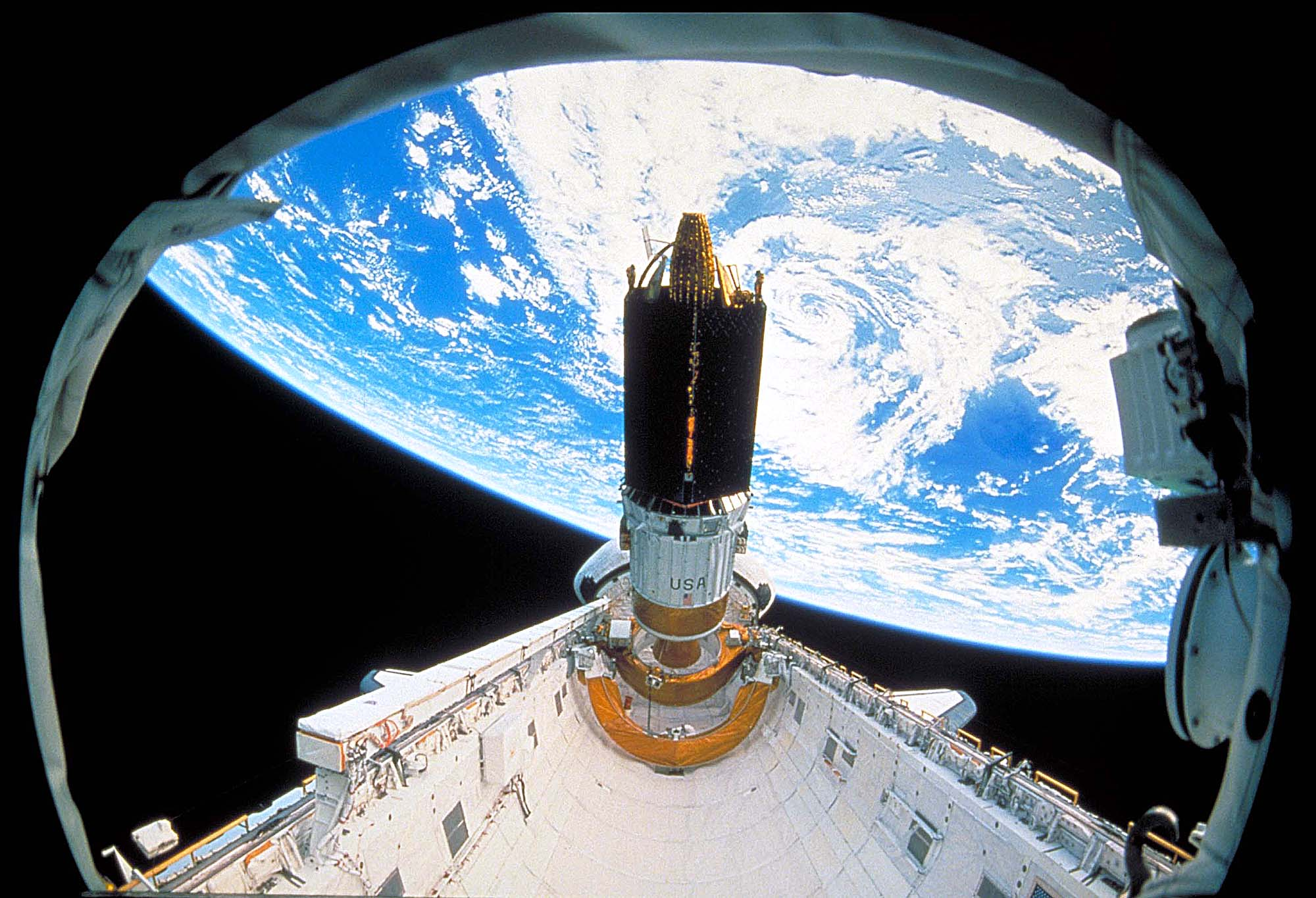 Deployment of the fourth Tracking and Data Relay Satellite during STS-29.